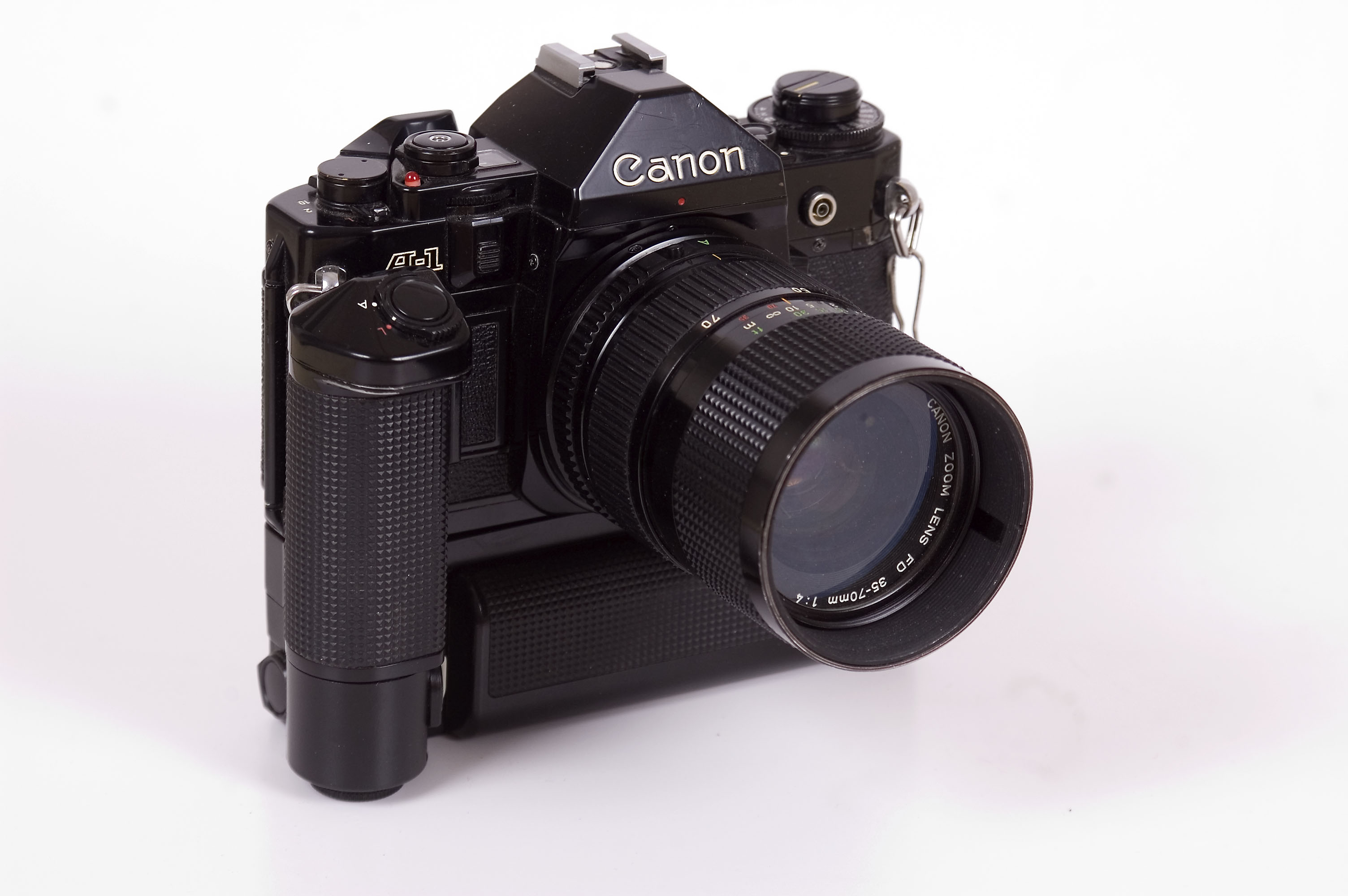 Canon A-1 with Motor Drive MA